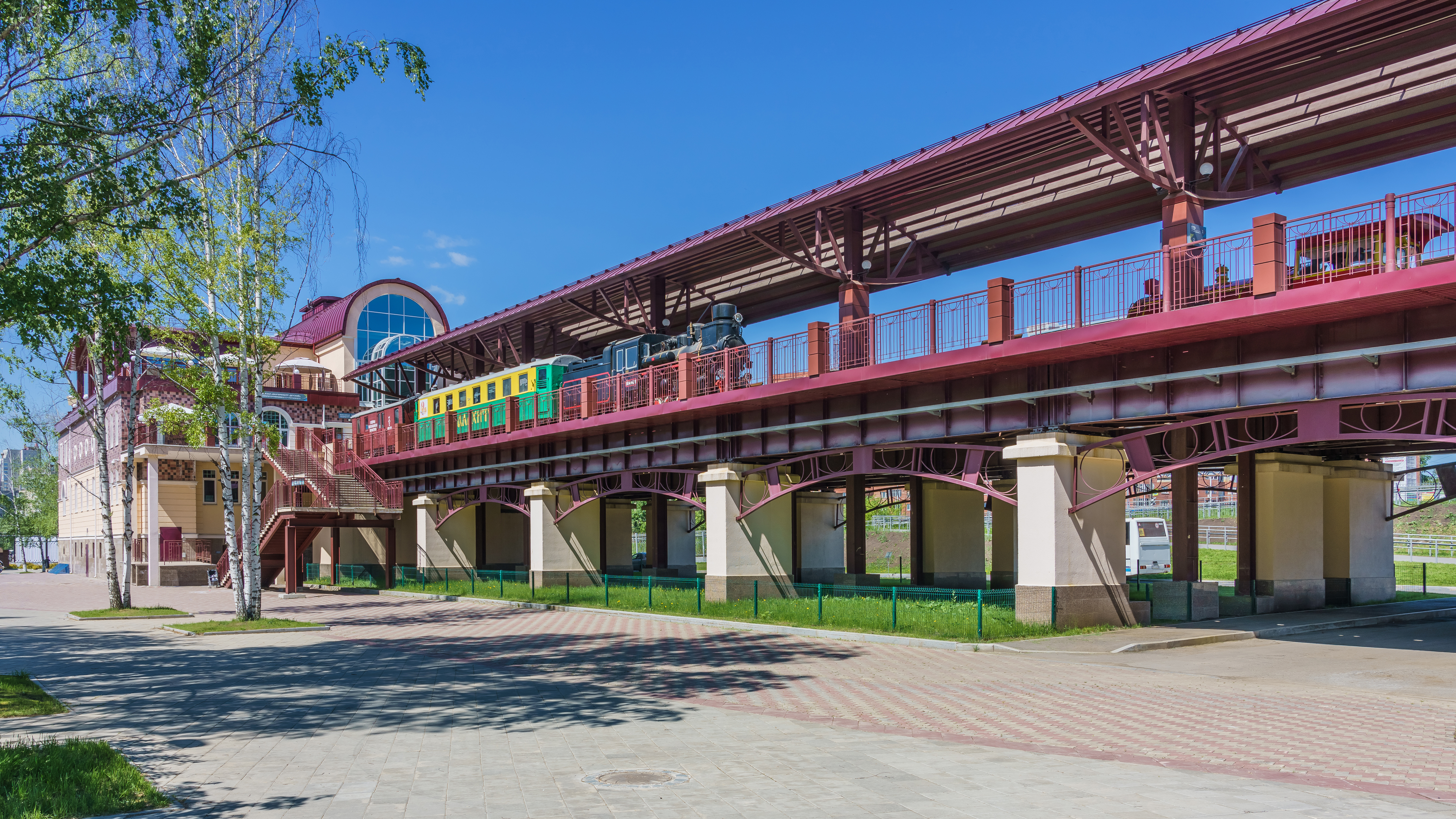 Children's railway station in Mayakovsky Park in Ekaterinburg, Russia